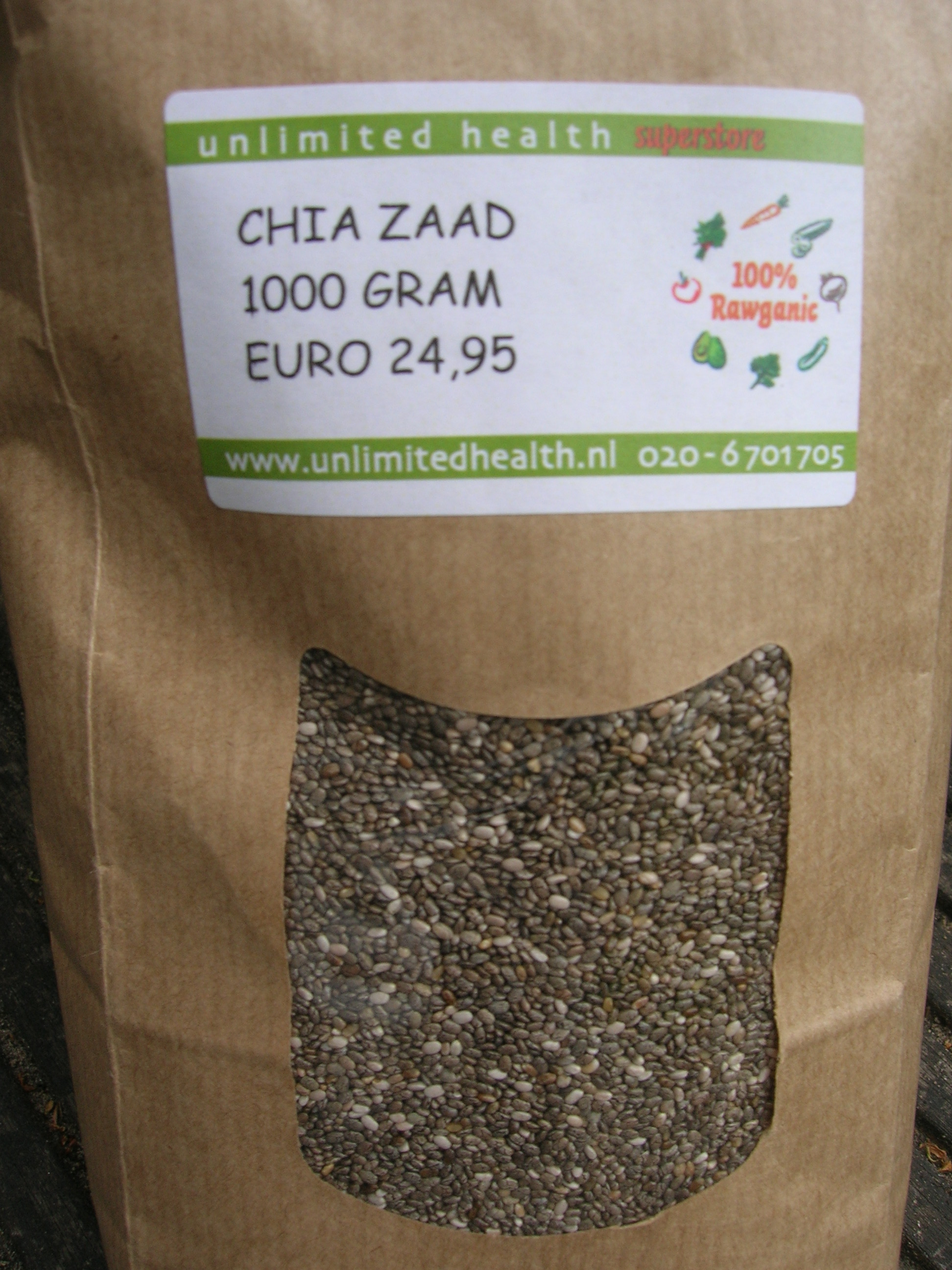 Chia Seeds